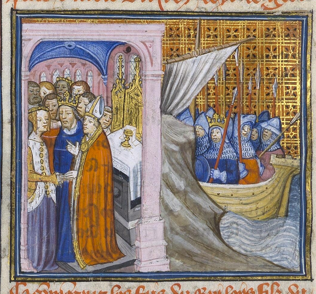 Les Chroniques de Saint-Denis